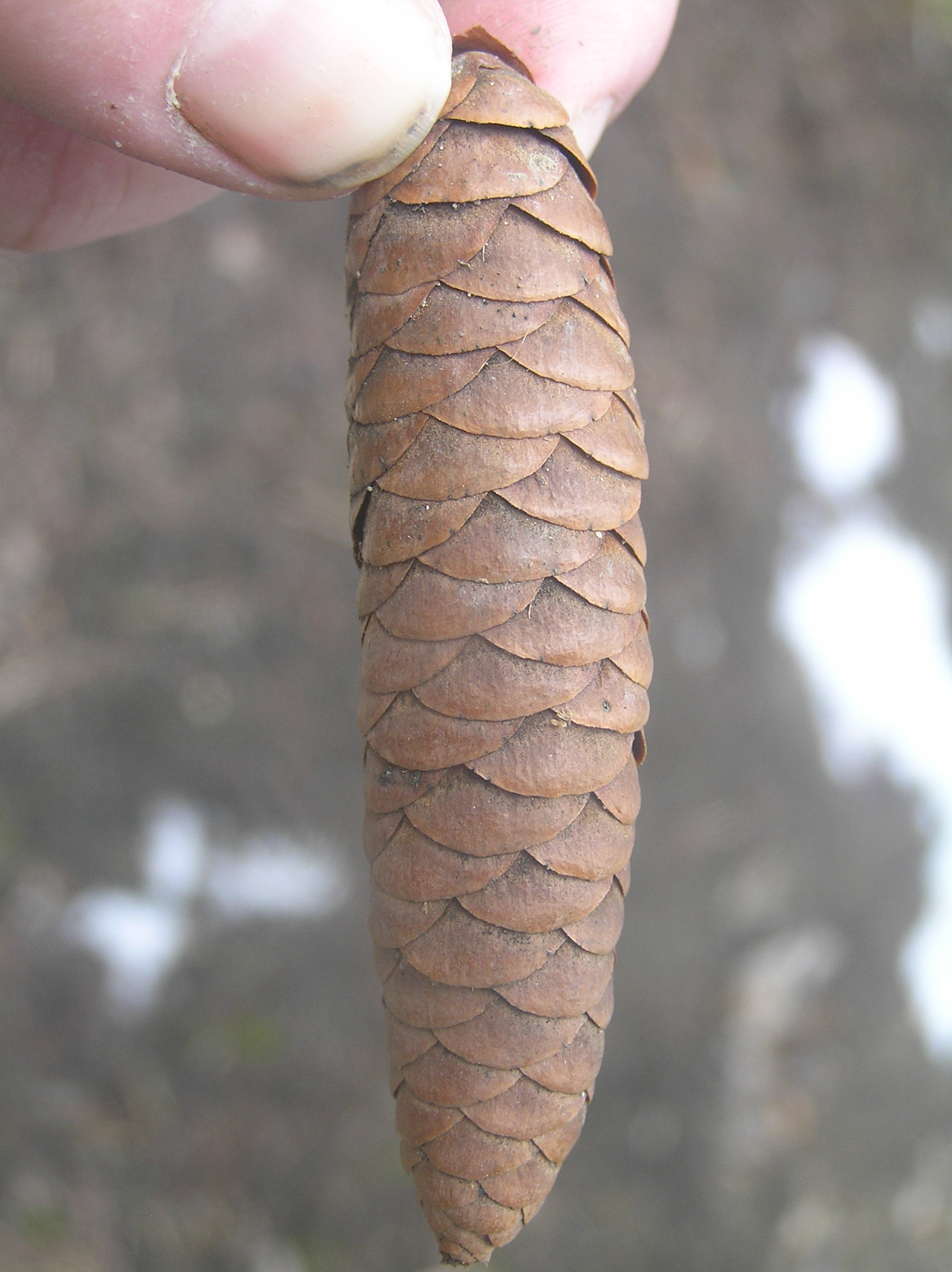 Picea obovata, female cone, cultivated in Brno, Czech Republic